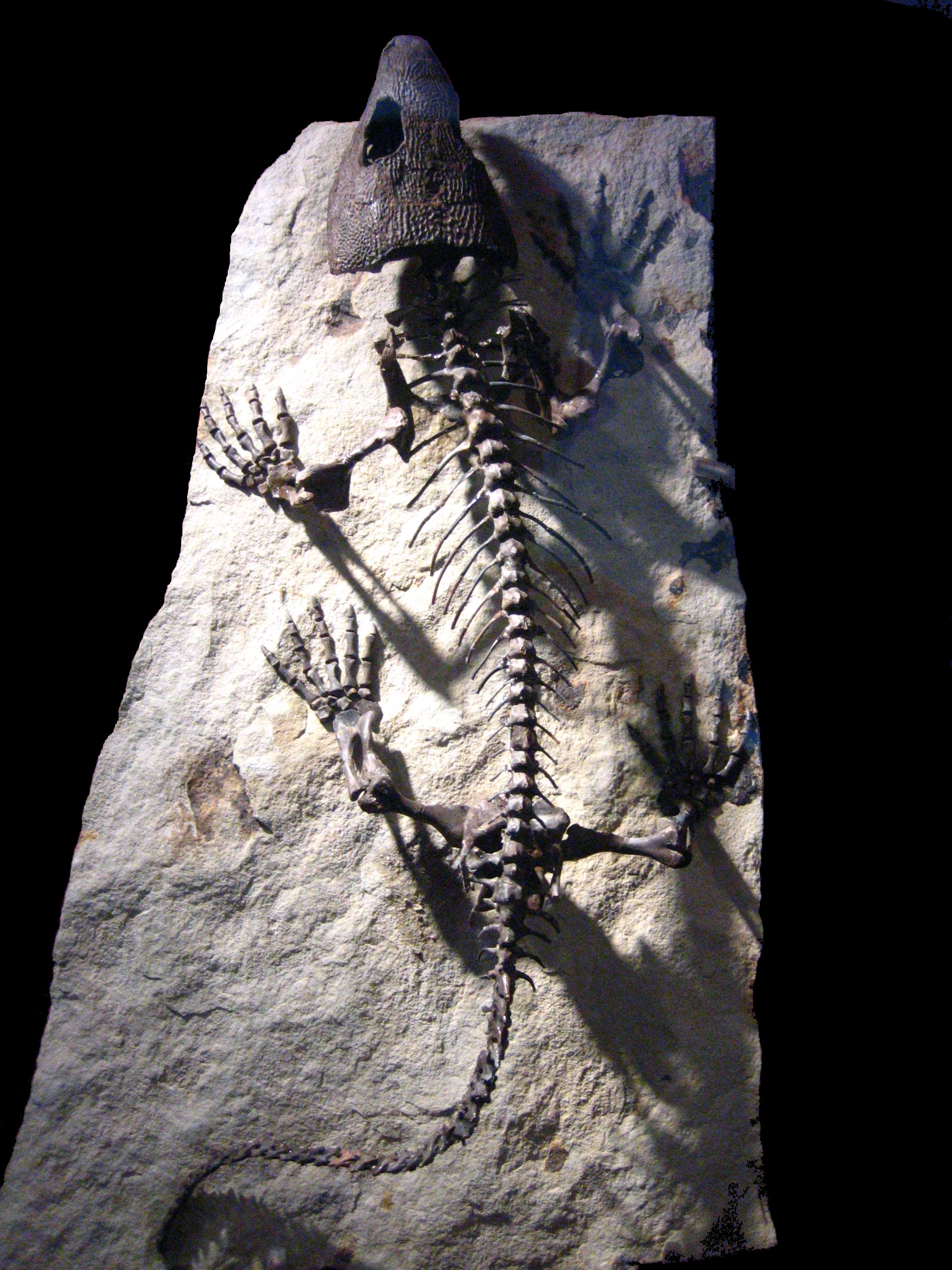 Captorhinus aguti, Lower Permian (299-270 mya), Oklahoma, USA; CosmoCaixa, Barcelona